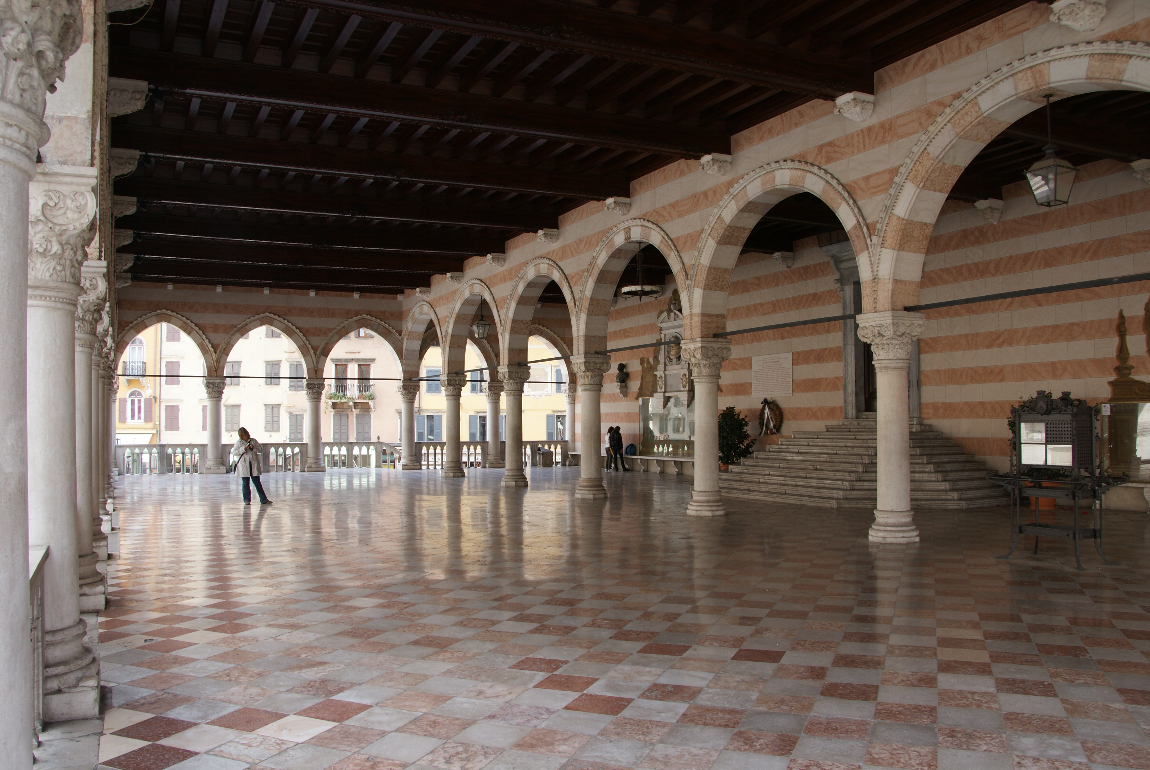 Udine, Loggia del Lionello